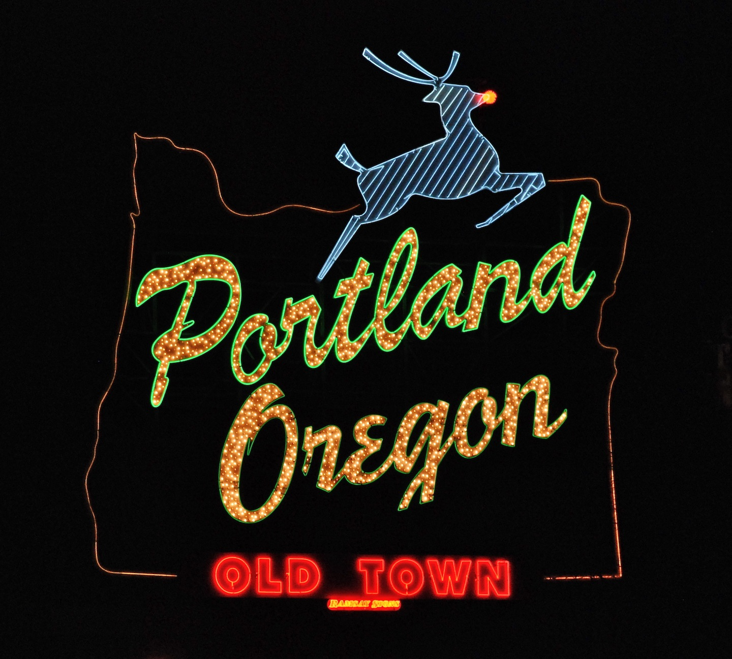 The White Stag Sign, in Portland, Oregon, at night, showing the wording it began displaying in late November 2010. The 1940-built sign was designated a Portland landmark by the city's Historic Landmarks Commission in 1977. During the Christmas and holiday season, a simulated "red nose" (of neon) is turned on, in imitation of the character, Rudolph the Red-Nosed Reindeer.